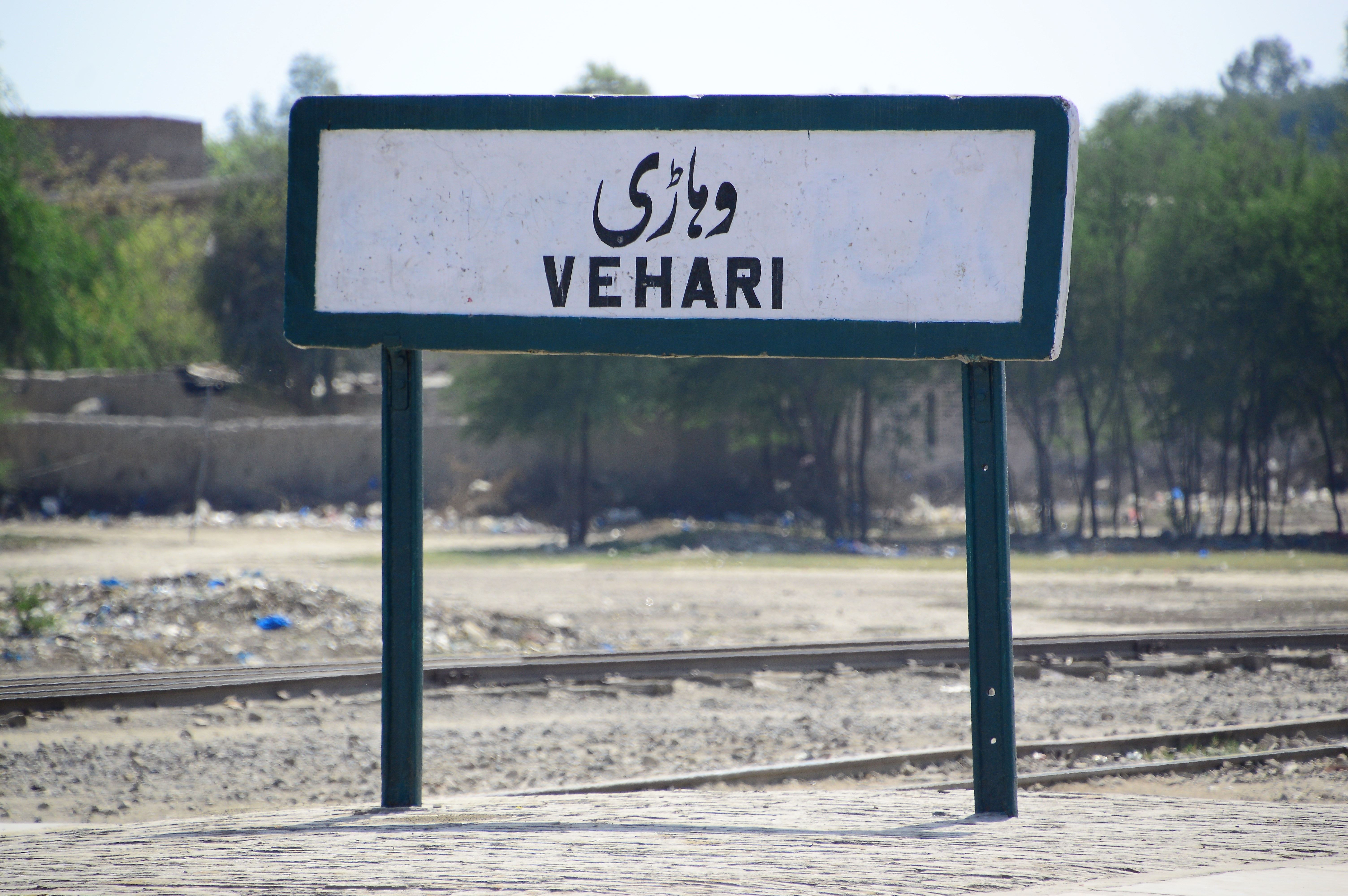 A classic District Vehari Railway Station Sign Board